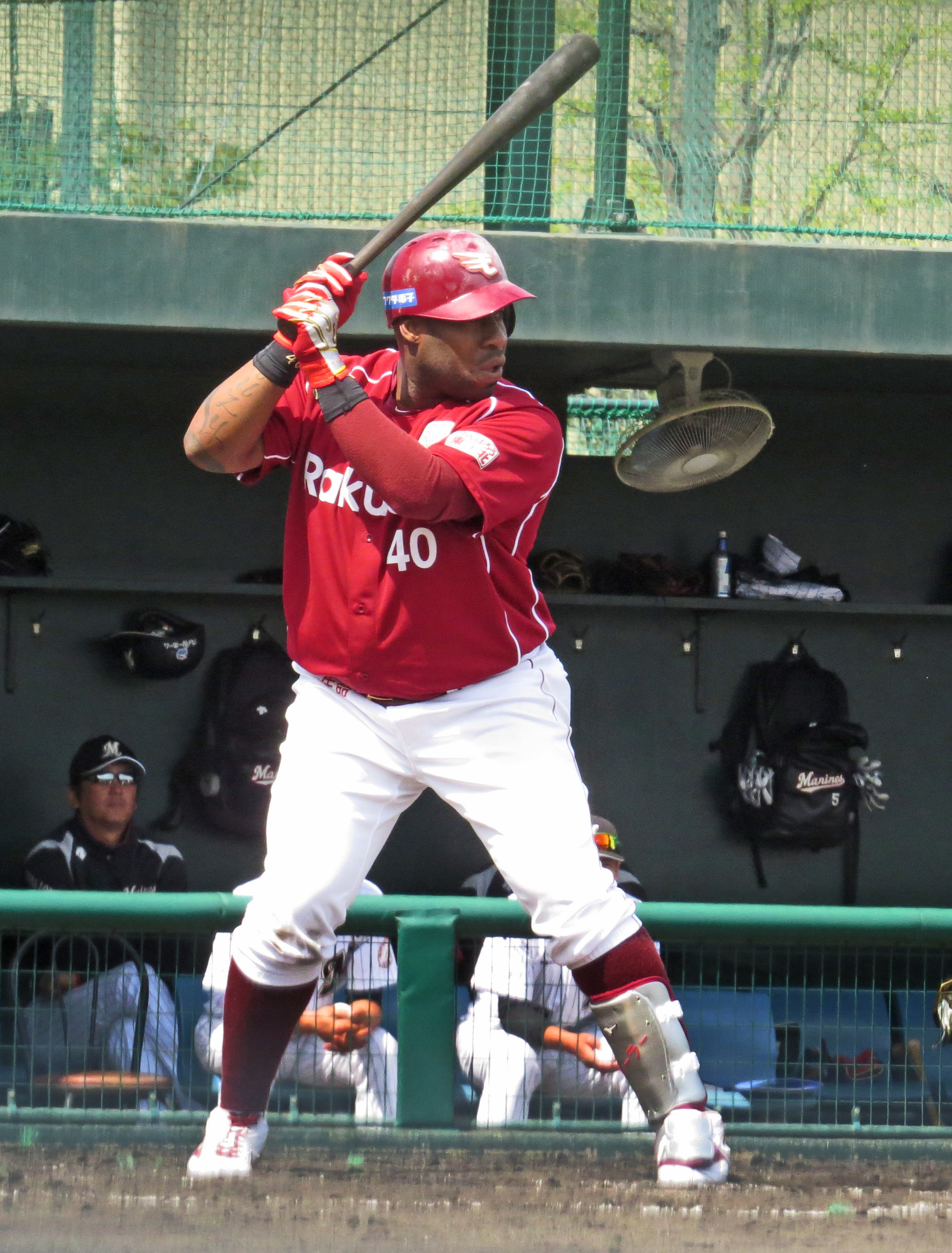 Zelous Wheeler, infielder of the Tohoku Rakuten Golden Eagles, at Lotte Urawa Baseball Ground.